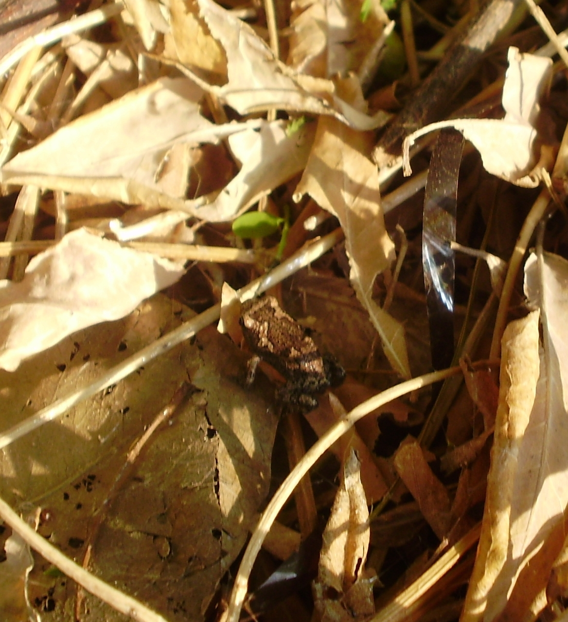 Picture of a toad, found well camouflaged with its surroundings, near a beach in Chennai, India.